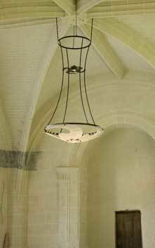 Glass luminaries by Natacha MONDON & Eric PIERRE